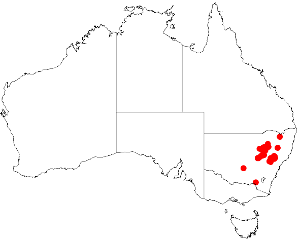 Bertya gummifera Occurrence data downloaded on 22 June 2019 from Australasian Virtual Herbarium using